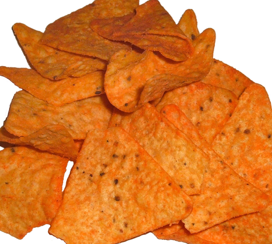 Nacho Cheesier flavor Doritos